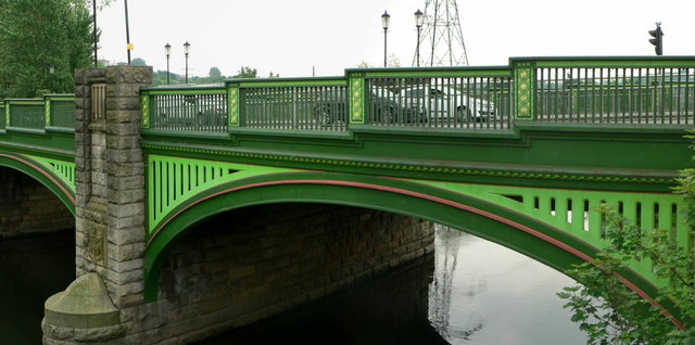 Kirkstall Bridge over the River Aire. This bridge was built in 1912. For a picture of the newly built bridge (but from the other side) see the Leodis archive and for this side in 1929 See also 183837 and 183838